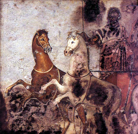 Wall painting on tomb believed to be King Philip's, at Vergina, Greece